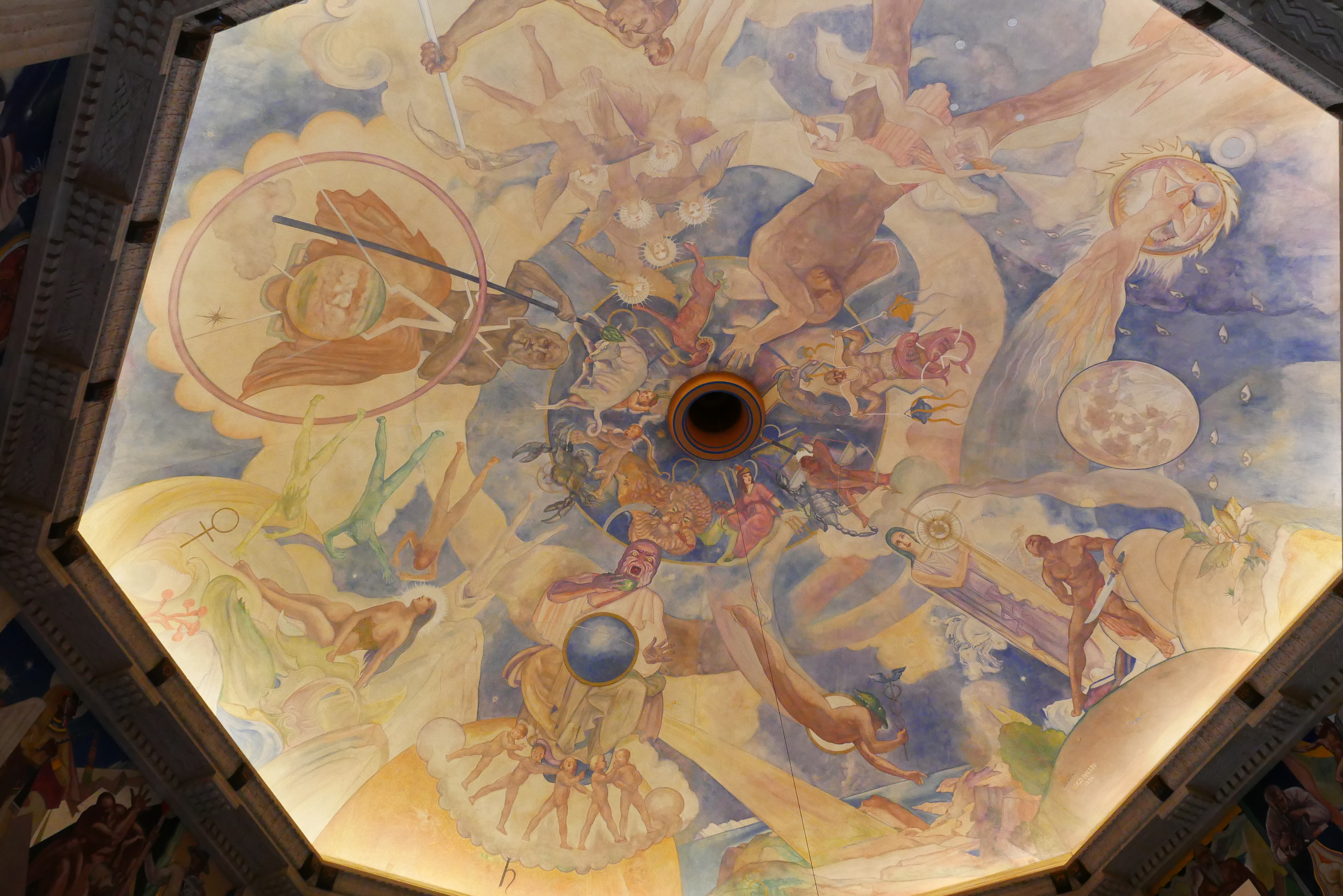 Ceiling in Griffith Observatory